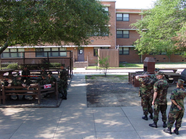 Once you are in the army, you get training, and training for signal regiment, you will likely visit the Fort Gordon Georgia right next to Augusta Georgia. Trees, hot summer, and great umm, school in Fort Gordon will train you to a advanced us army signal soldier of tomorrow.